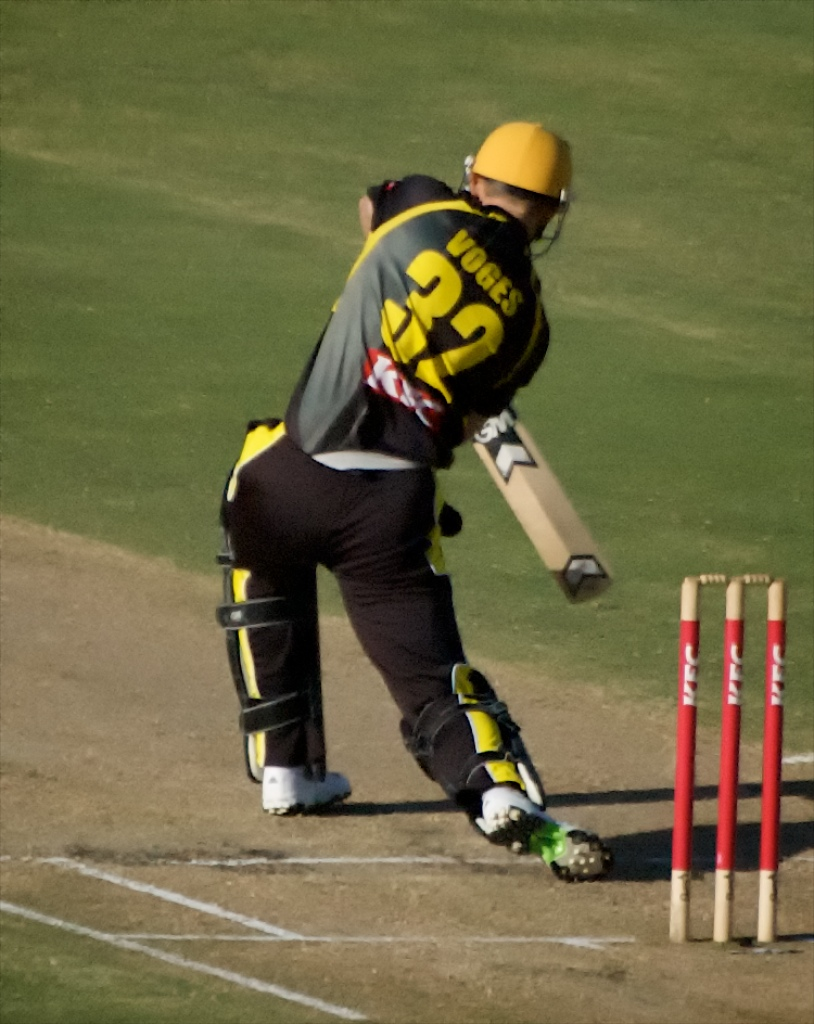 Adam Voges at KFC Twenty20 BigBash - WA v VIC, 10 January 2010, WACA Ground